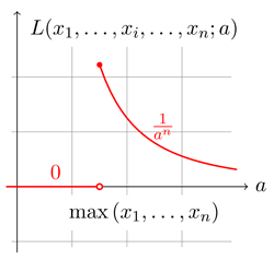 The likelihood (joint density function) or n uniform observables in [0,t].